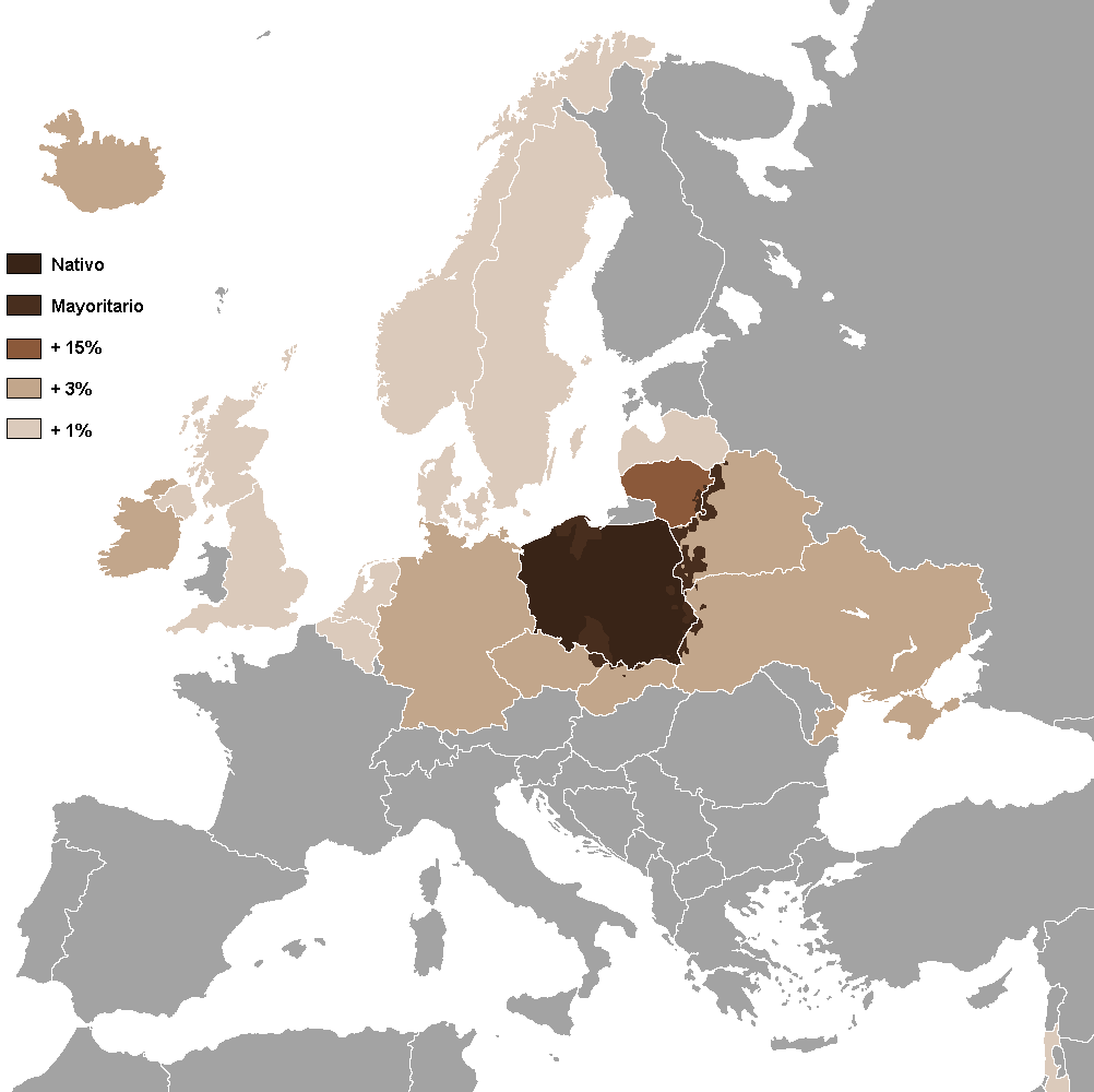 Percentage of polish language usage, actualisation 2016-2020